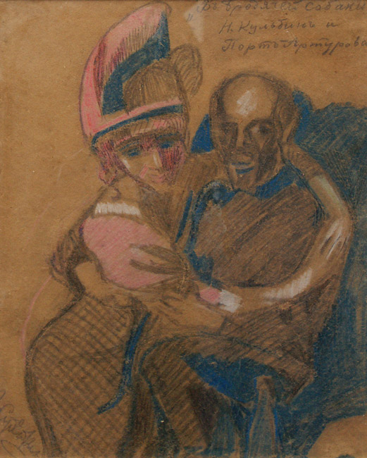 N. Kulbin and P.Bogdanova-Belskaya by S.Sudeykin (1910s, Akhmatova's museum)